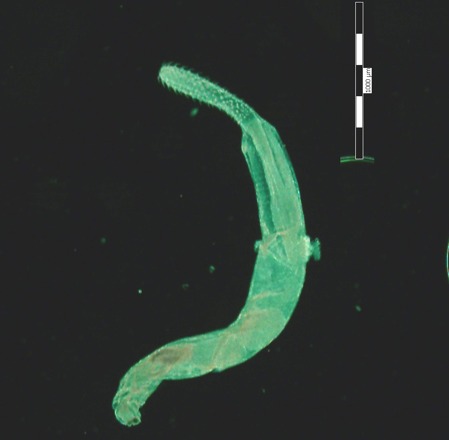 The male of Telosentis exiguus from the big-scale sand smelt (Atherina boyeri) from France